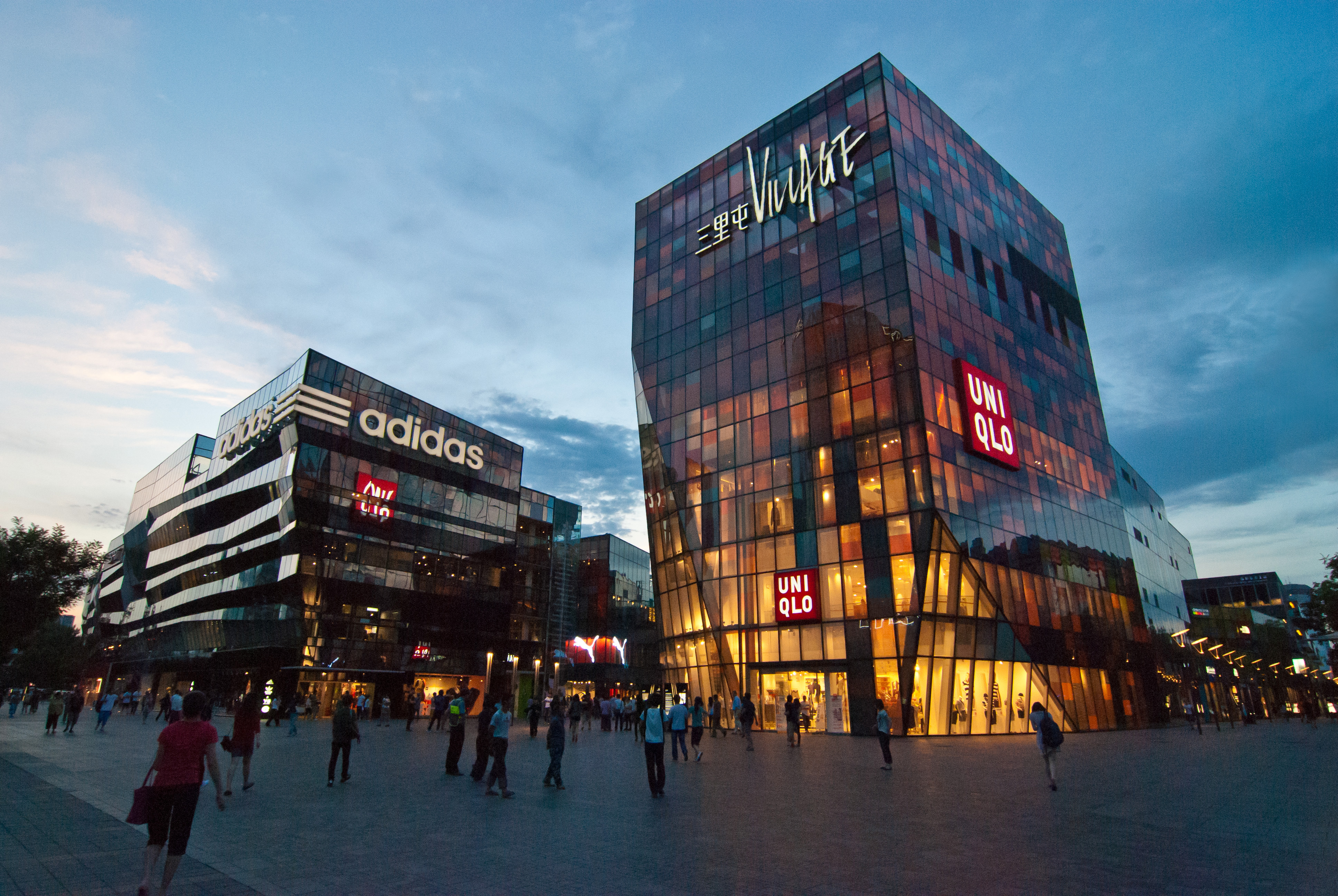 Sanlitun at dusk